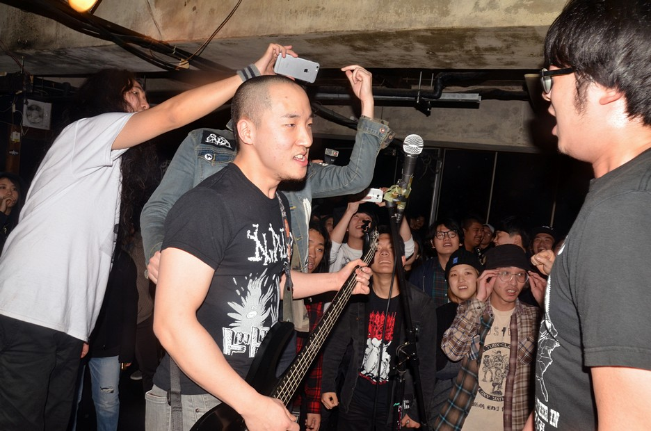 The two members of Bamseom Pirates face each other while performing at GBN Live House in Seoul on January 21, 2017.